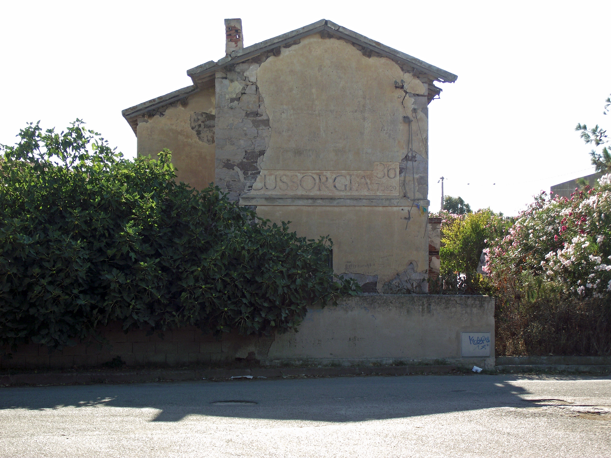 The former railway halt of Cussorgia, in the homonymous hamlet of Calasetta municipality, in Sardinia, Italy, closed in 1974